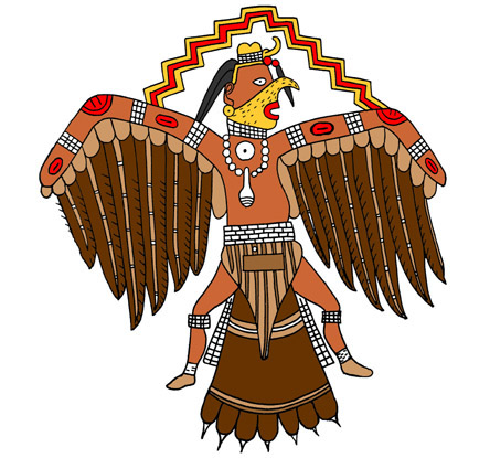 A digital illustration by the artist Herb Roe, based on a S.E.C.C. design whelk shell engraving from Spiro, Oklahoma.